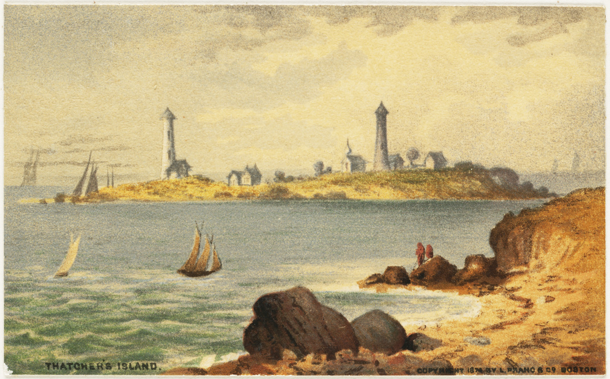 File name: 07_11_000313 Title: Thatcher's Island Creator/Contributor: L. Prang & Co. (publisher) Copyright date: 1874 Genre: Chromolithographs; Seascape prints Location: Boston Public Library, Print Department Rights: No known restrictions Flickr data on 2011-08-07: Camera: Sinar AG Sinarback 54 FW, Sinar m License: CC BY 2.0 User: Boston Public Library BPL